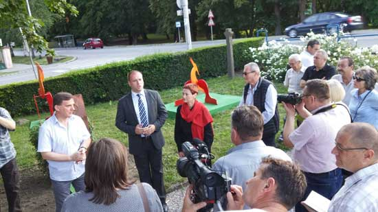 Opening of Gross memorial sculpture Park Vinkovci Croatia 2016